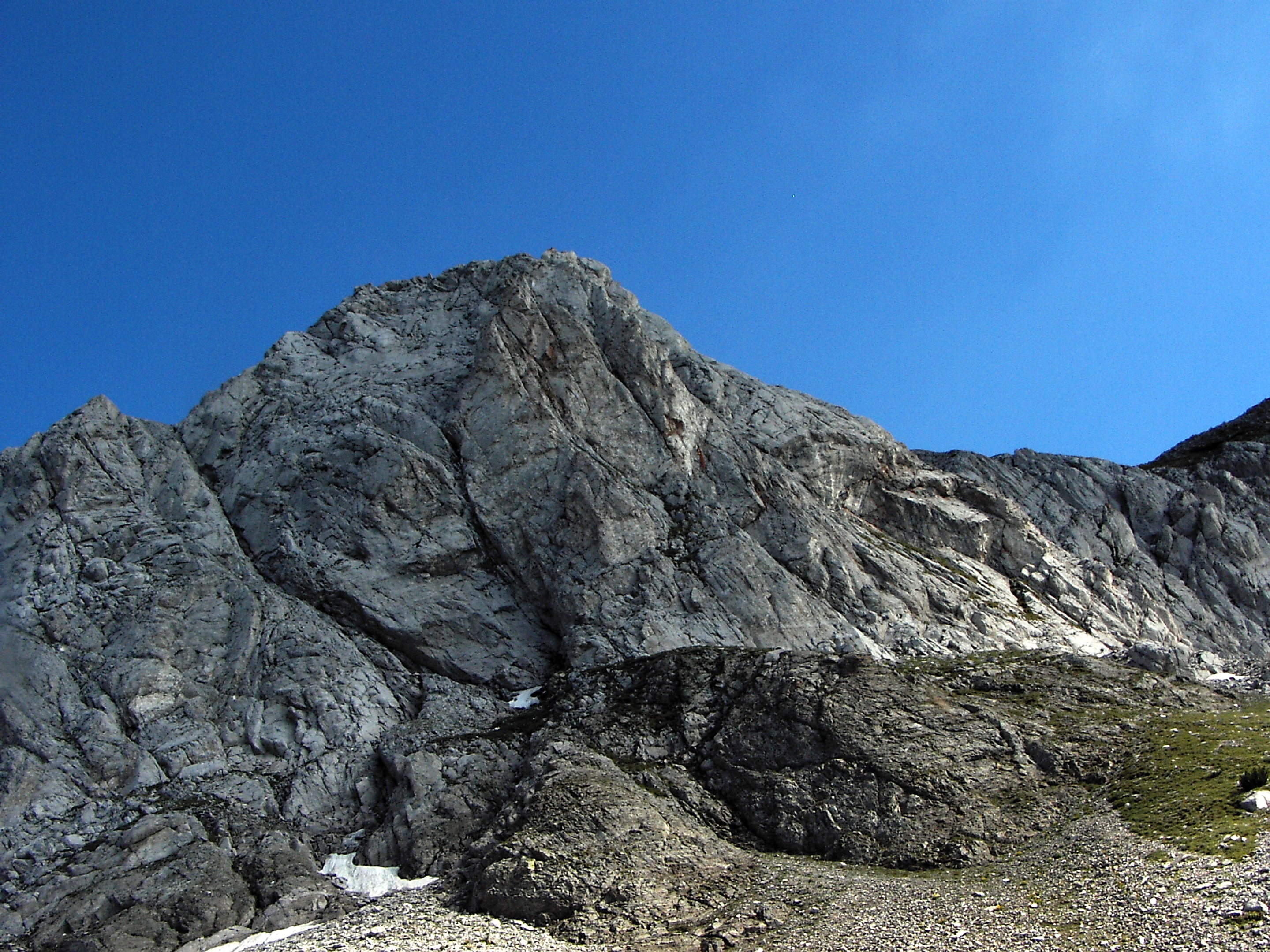 Gergiica peak viewed from Gergiiski lakes